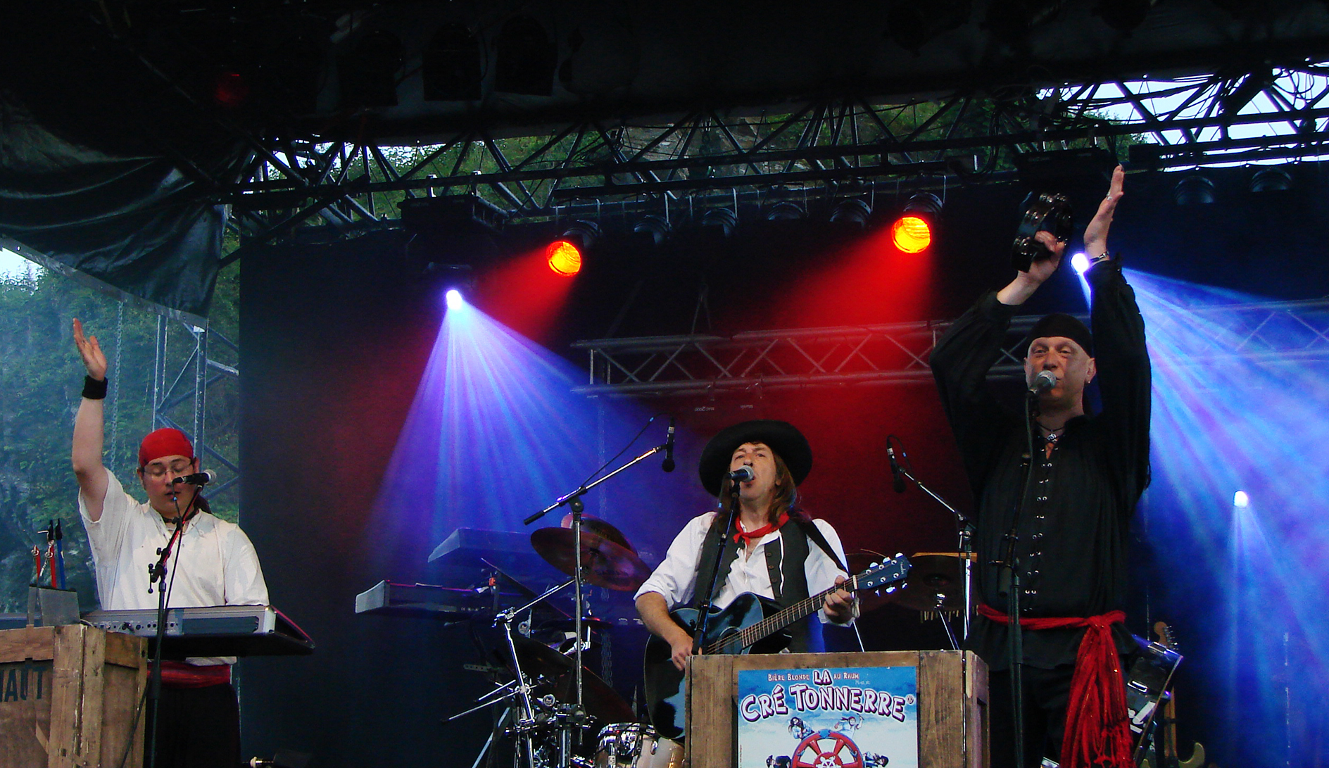 Cré Tonnerre, a folk music band from Belgium (sailor songs).Aymon Folk Festival,Bogny-sur-Meuse (Ardennes,France),04/08/2007.